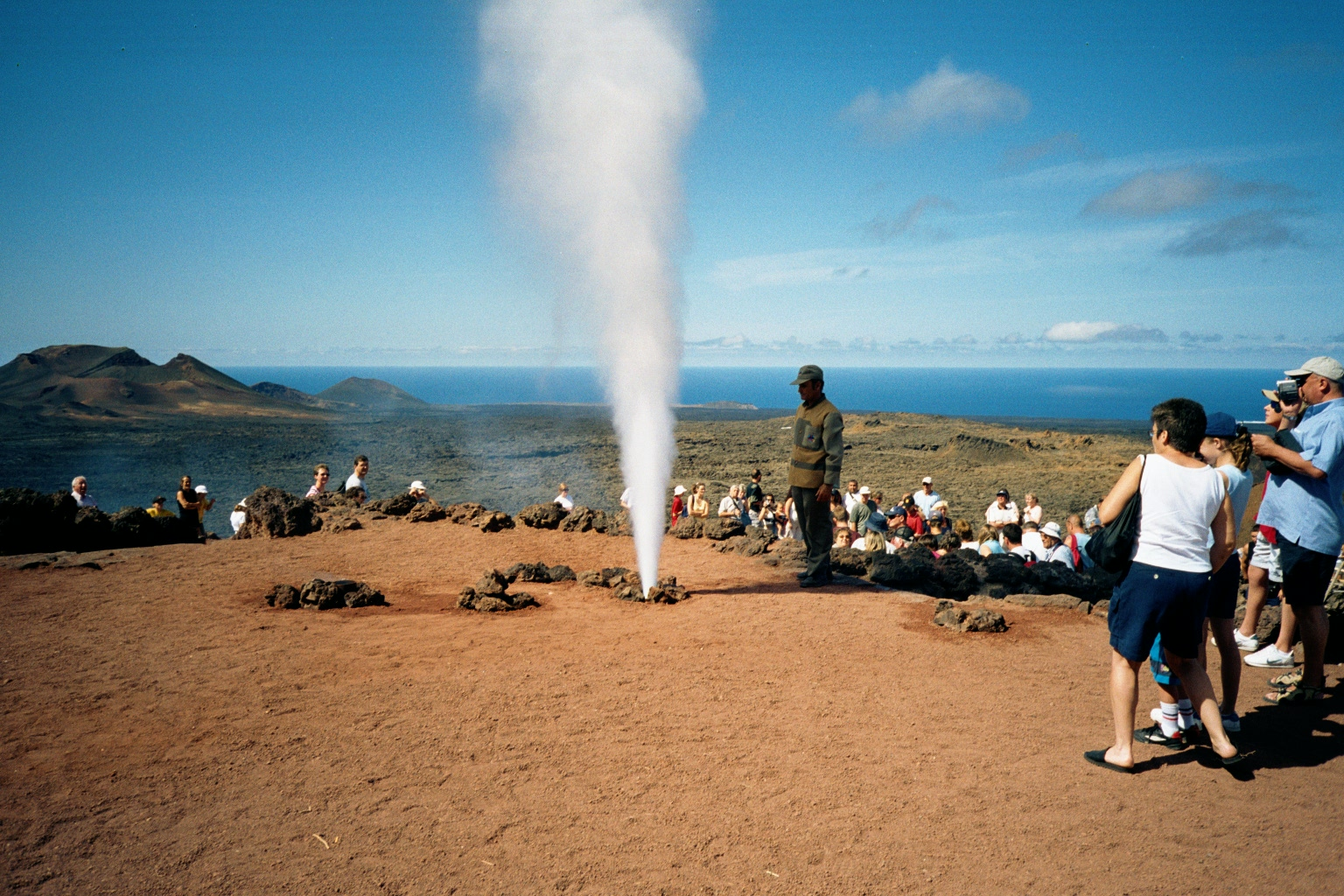 Water poured in a hole on top of the Timanfaya mountains, Lanzarote, Canary Islands comes back as a small Geysir. This is repeated every now an then for tourists.